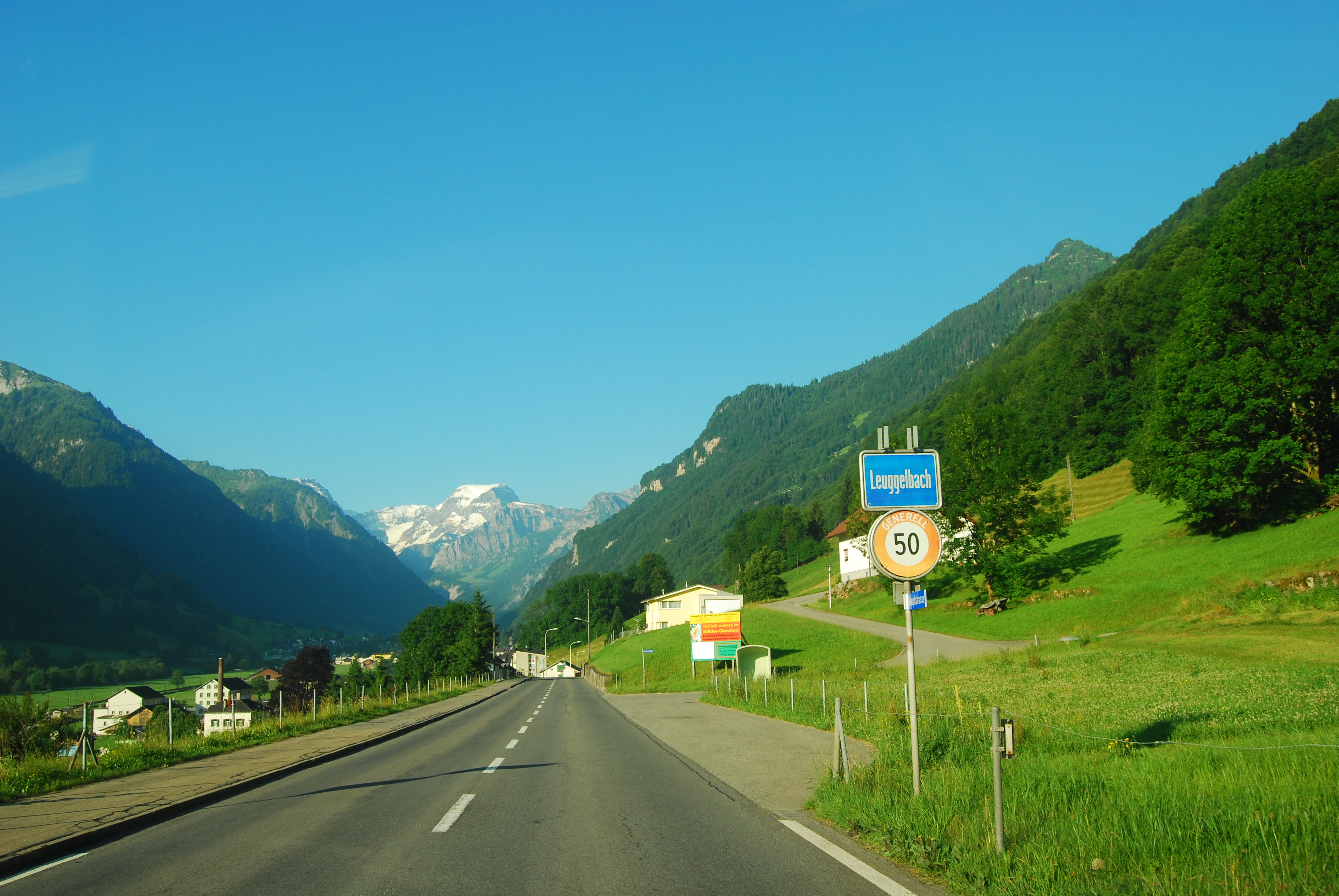 Village entry of Leuggelbach, canton of Glarus, Switzerland